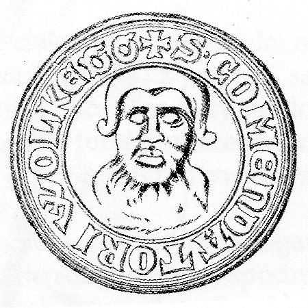 Seal (emblem)